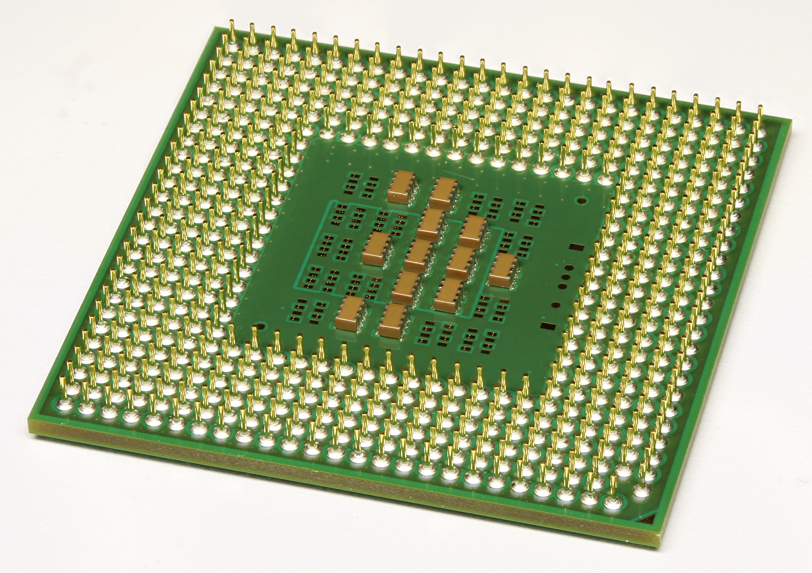 The bottom side of an Intel Pentium M 1.4 (RH80535GC0171M) CPU